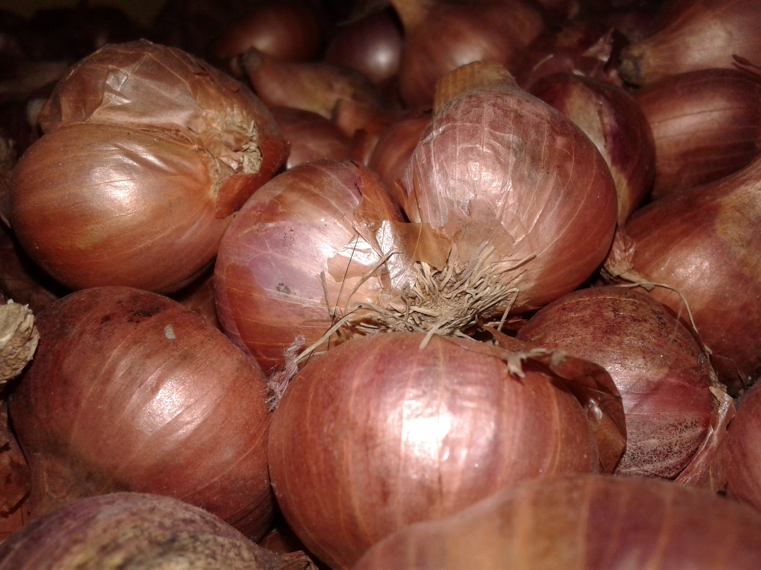 Bangladeshi onions.